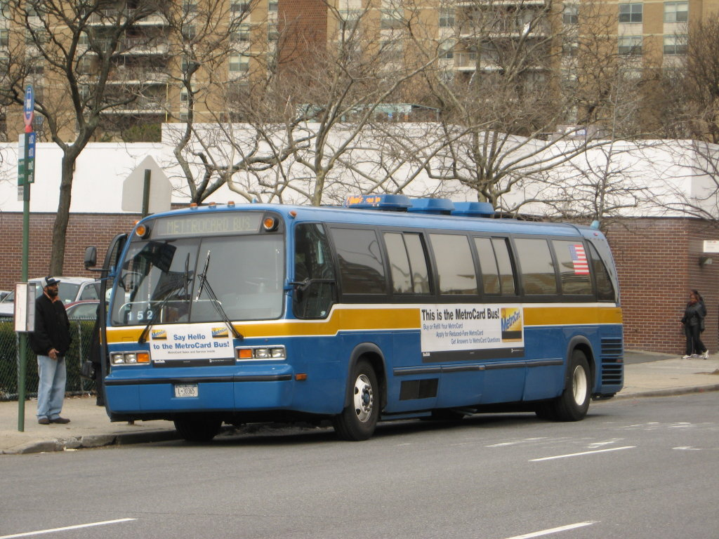 NYC Transit MetroCard bus #8319 at the Spring Creek Towers sales spot.